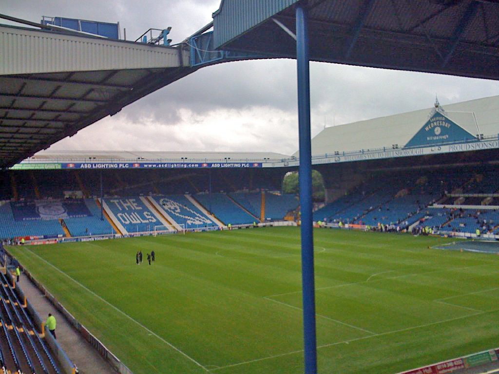 A view of Sheffield Wednesday F.C's 'Hillsborough Stadium'.